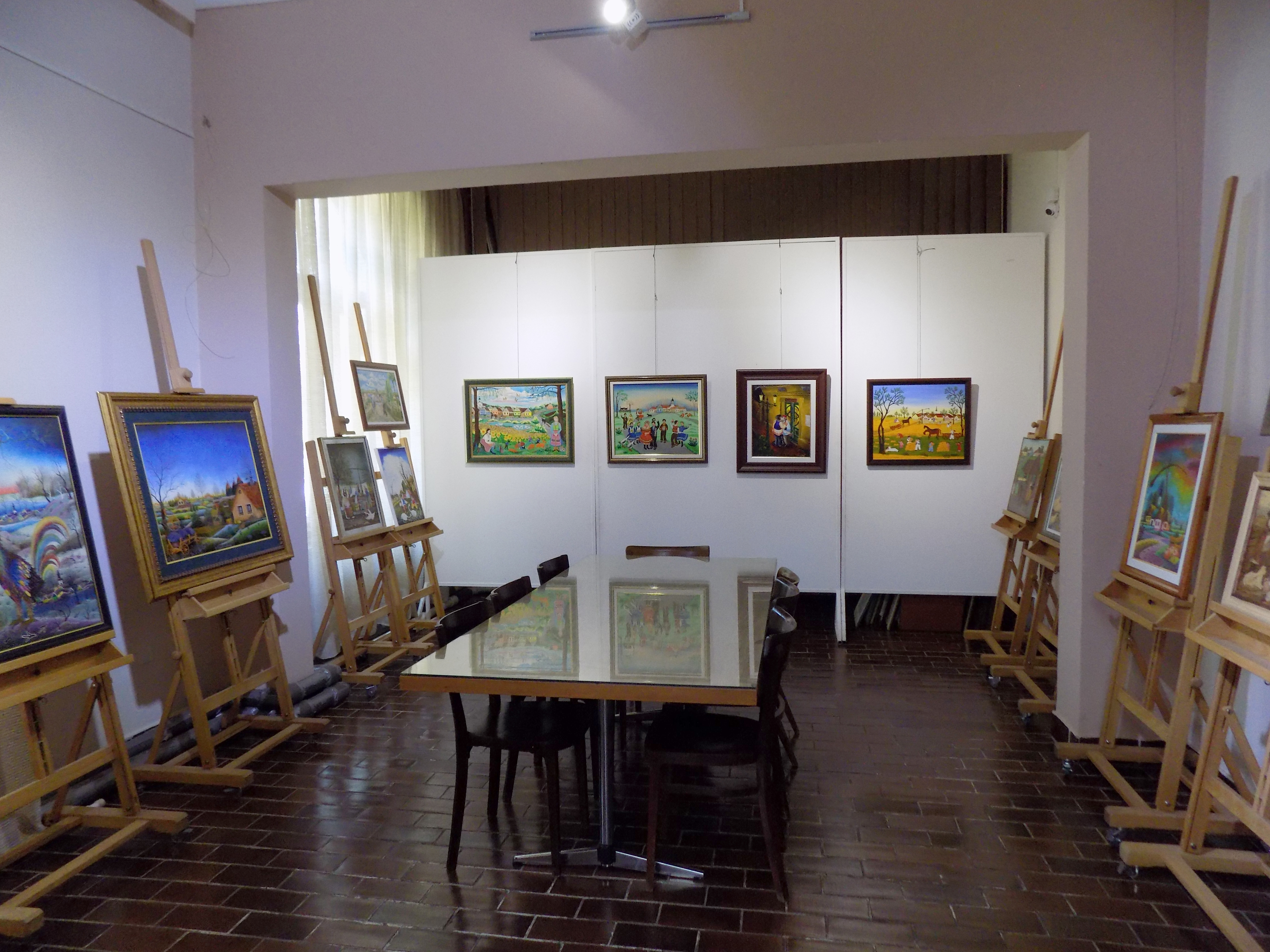 Works of contemporary painters in the Gallery of Naive Art in Kovačica